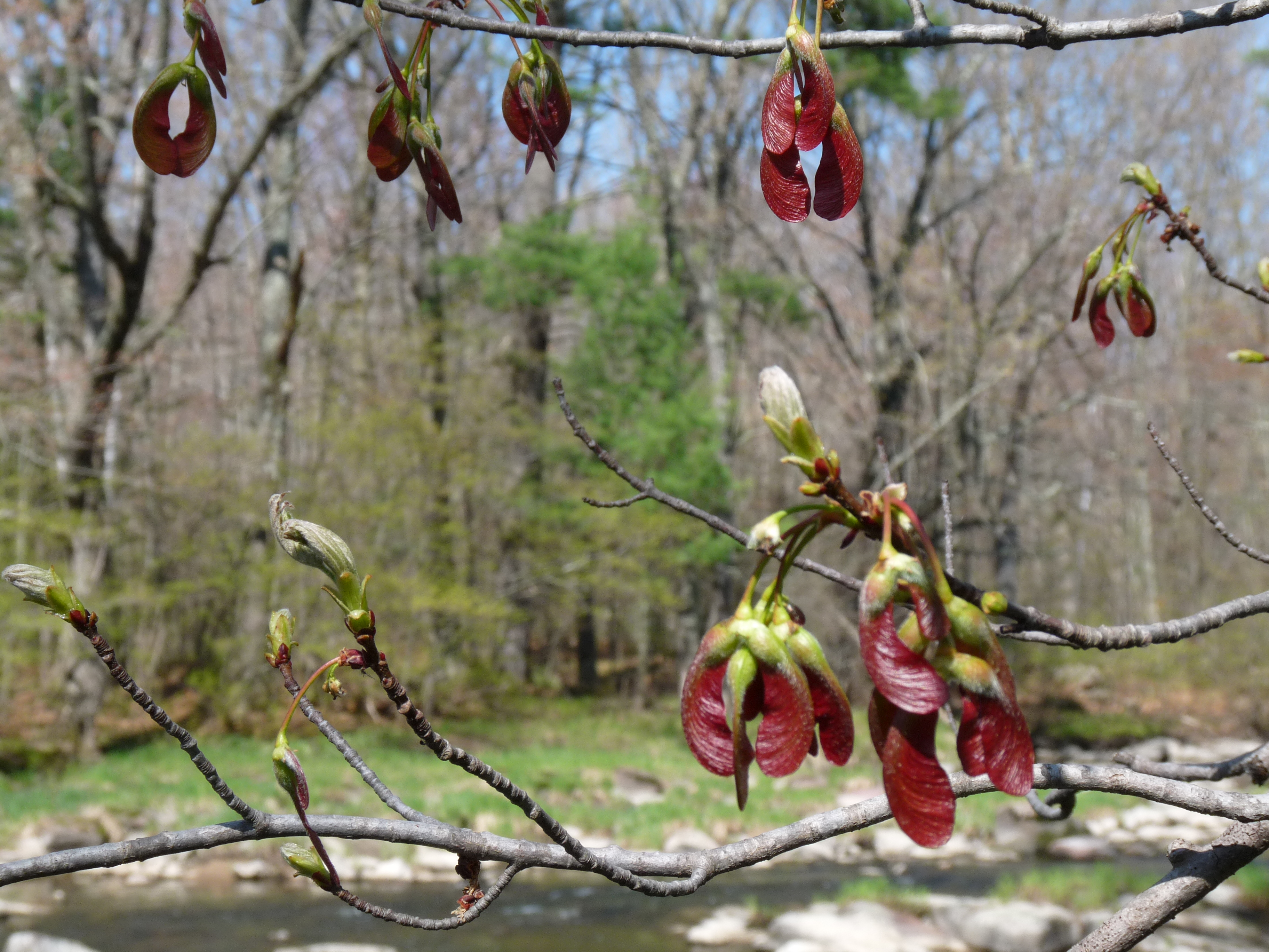 Helicopters and leaves forming on a soft maple in Wisconsin in April.